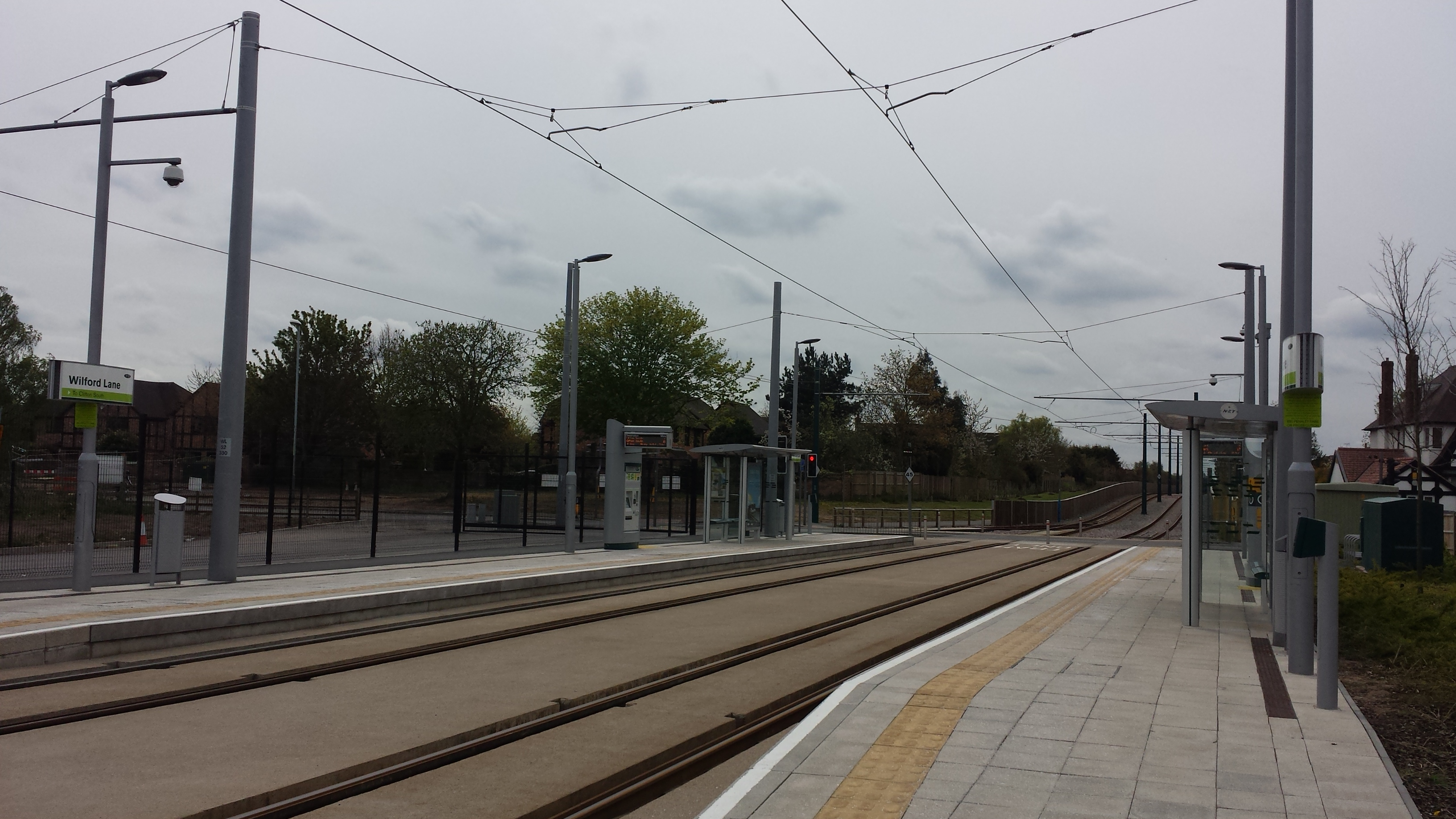 Wilford Lane tram stop looking towards Clifton, with the crossing of Wilford Lane beyond the stop.